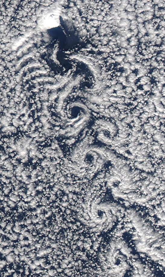 (Cropped) Theodore von Kármán, a Hungarian-American physicist, is well-known within NASA for helping found the Jet Propulsion Laboratory, but in atmospheric science circles he is most celebrated for his research on fluid turbulence and his pioneering work on a phenomenon known today as von Kármán vortices. Von Kármán vortices, which can appear as long linear chains of spiral eddies, form nearly anywhere that fluid flow is disturbed by an object. The atmosphere behaves like a fluid, so the wing of an airplane, a bridge, and even an island can cause the vortices to form. In the image above, an isolated Norwegian territory in the North Atlantic Ocean, called Jan Mayen Island, is responsible for the spiraling cloud pattern. The unique flow occurs when winds rushing from the north encounter Beerenberg Volcano, a snow-covered peak on the eastern end of the island that rises 2.2 kilometers (1.4 miles) above the sea surface. As winds pass around the volcano, the disturbance in the flow propagates downstream in the form of a double row of vortices that alternate their direction of rotation.